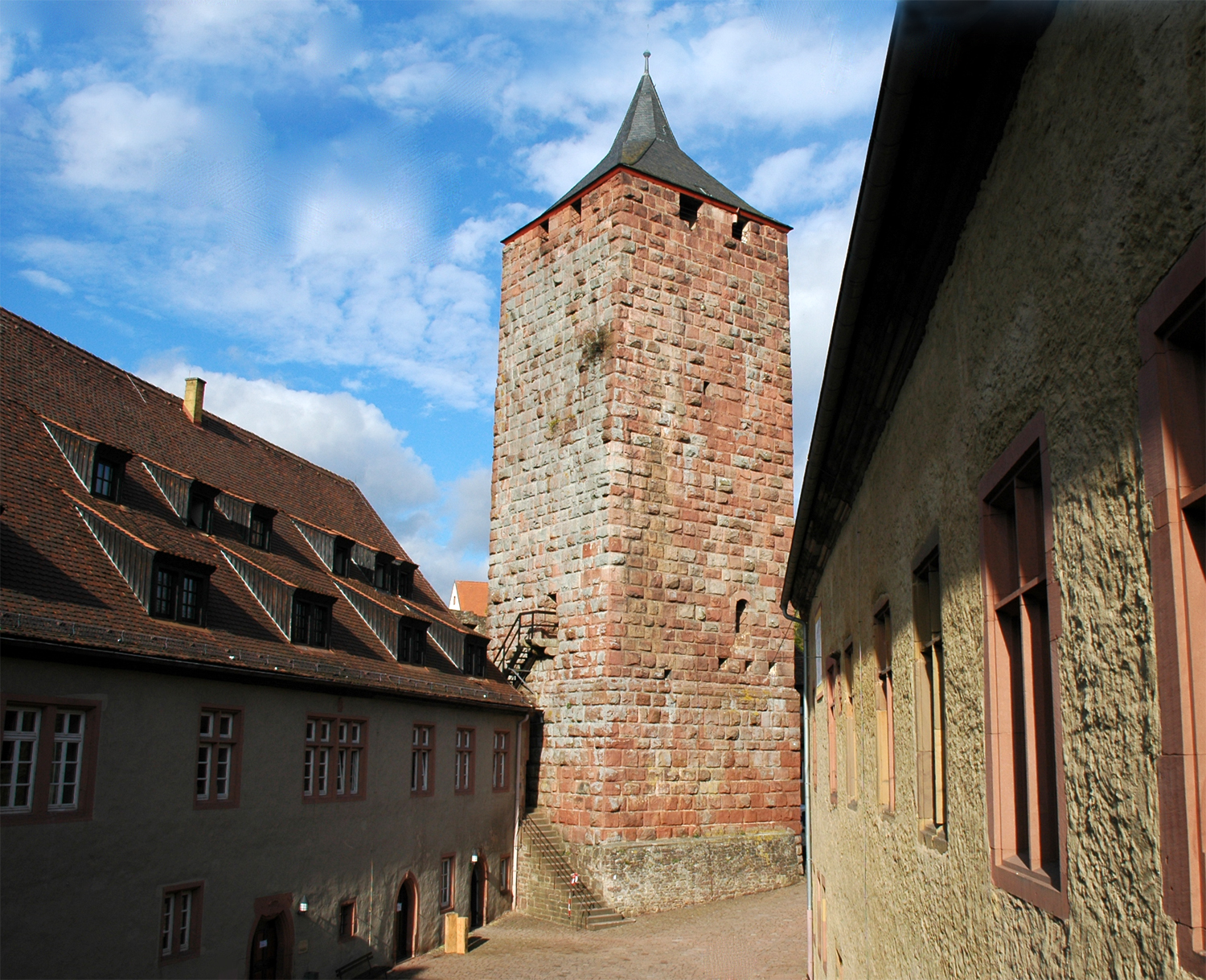 Burg Rothenfels